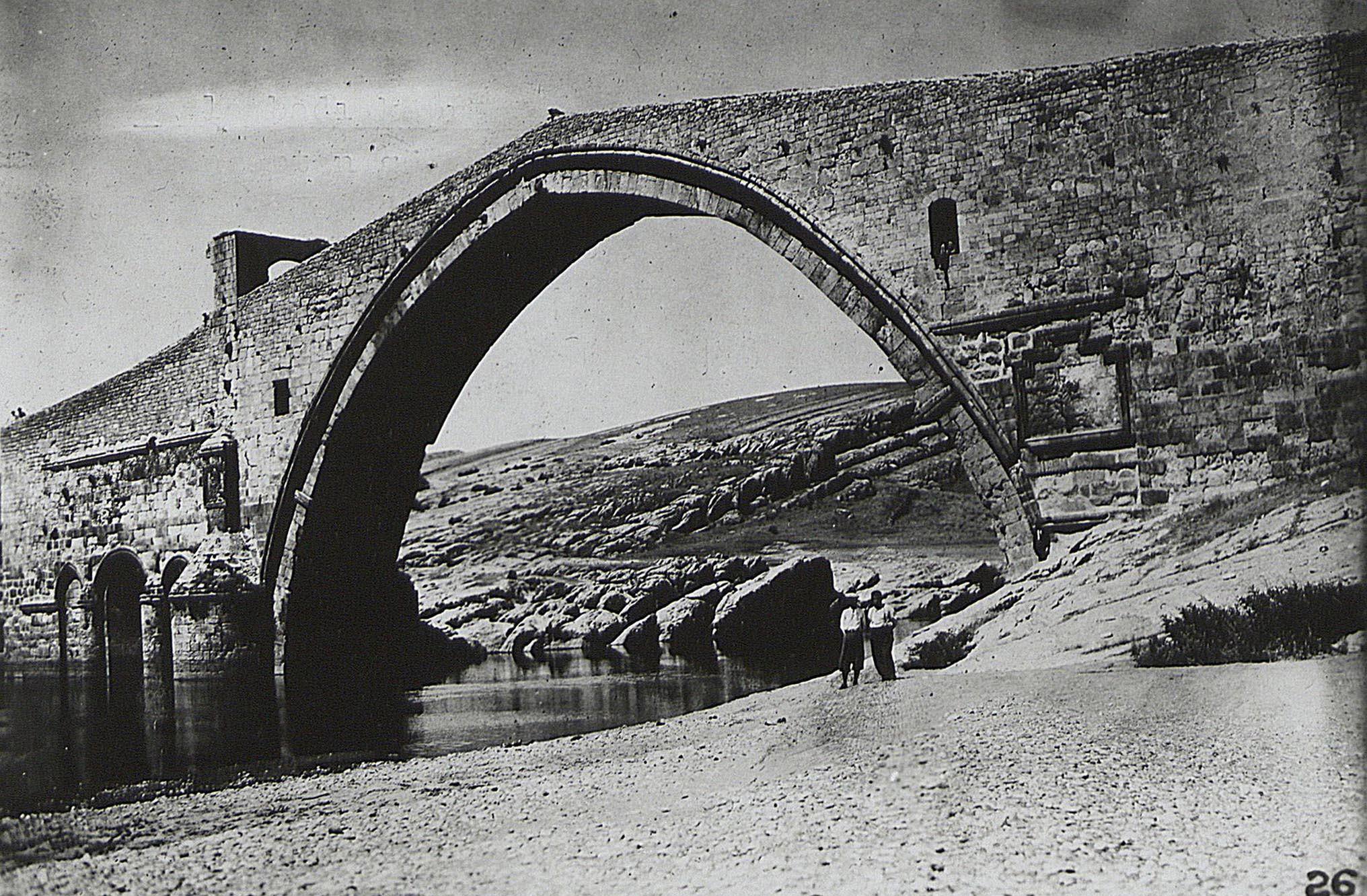 Malabadi Bridge crosses the Batman River, on the route from Diyarbakır to Batman. It was constructed on the order of Timurtaş, the leader of Artukoğulları in 1147-1148. Mostly built of yellow chalk, Malabadi Bridge has the largest stone bridge arch, measuring 38.6 m, in the world. In total it is 150 m long and 19 m high to its keystone. On both sides of the arch there are two rooms that were originally used for accommodation, especially in the winter. The bridge has been restored many times and although it is no longer in use it still exists as a monumental work of art. SALT Research Harika-Kemali Söylemezoğlu Archive, Ali Saim Ülgen Archive, Photography Archive Diyarbakır-Batman yolunda, Batman Çayı üzerinde yer alan Malabadi Köprüsü, 1147-1148’de Artukluoğulları’ndan Timurtaş tarafından yaptırıldı. Ana malzemesi sarı kalker olan yapı, dünyadaki taş köprüler arasında 38,60 metre açıklıkla en geniş kemere sahiptir. Kemerin her iki yanında, iç tarafta, zamanında kervan ve yolcuların özellikle zorlu kış şartlarında barınak olarak kullandığı iki oda bulunur. 150 metre uzunluğunda, 19 metre yüksekliğindeki köprü, doğu-batı doğrultusunda uzanan üç bölümden oluşur; iki ucunda hafif eğimlerle yola bağlanır. Çeşitli restorasyonlarla günümüze ulaşan Malabadi Köprüsü artık geçiş yolu olarak kullanılmamakta, anıtsal bir tarihi eser olarak varlığını sürdürmektedir. SALT Araştırma Harika-Kemali Söylemezoğlu Arşivi, Ali Saim Ülgen Arşivi, Fotoğraf Arşivi